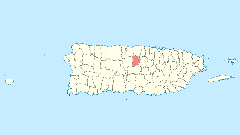 Municipal locator of Puerto Rico